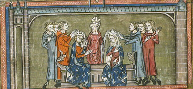 Coronation of Louis VIII of France and Blanche of Castile (British Library, Royal 16 G VI f. 386v)